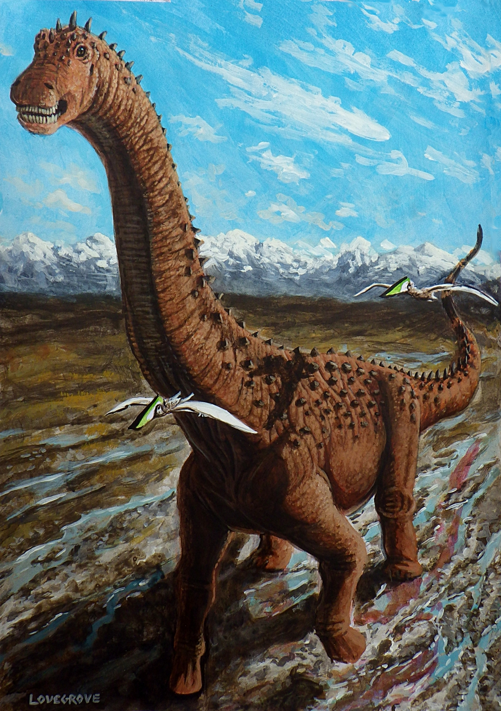 Patagotitan walks between feeding areas, accompanied by some Thalassodromid pterosaurs.